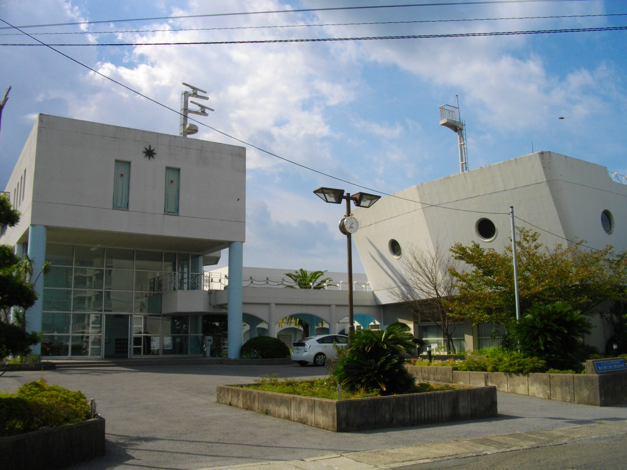 National Tateyama Maritime Polytechnical School